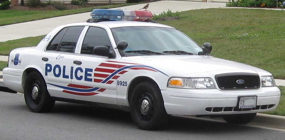 Ford Interceptor from the Washington, D.C., police department photographed in Fort Washington, Maryland, USA.